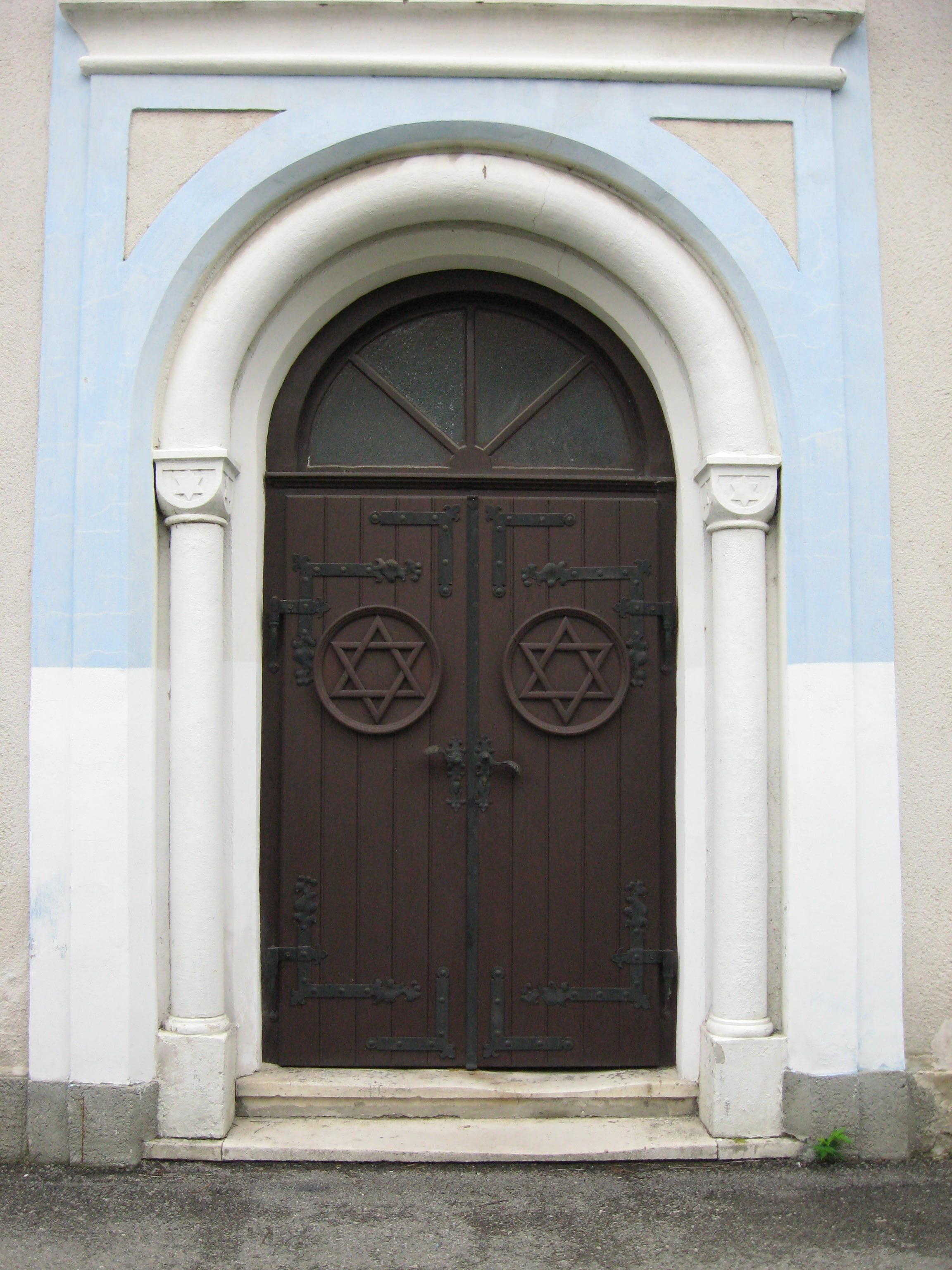 The Portal of Synagogue in Nové Zámky